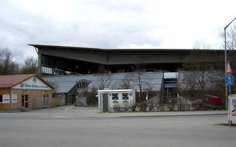 View of the municipal ice rink in Straubing, Germany